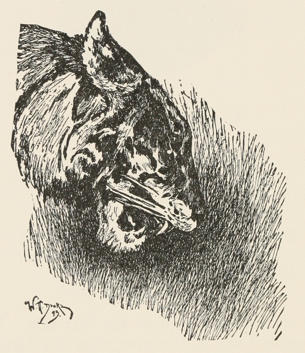 Illustration of Shere Khan from the chapter "Tiger! Tiger!"